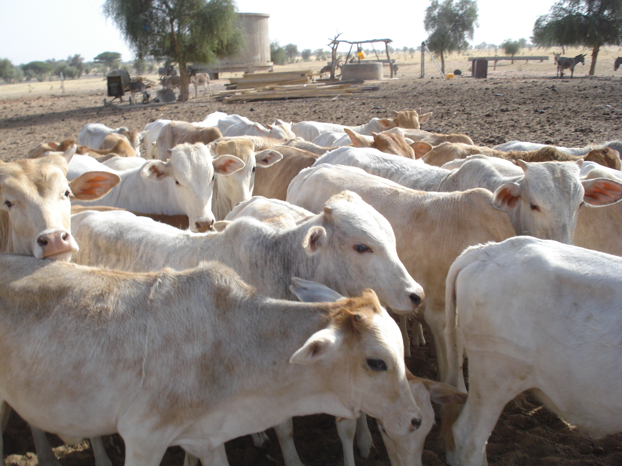 text